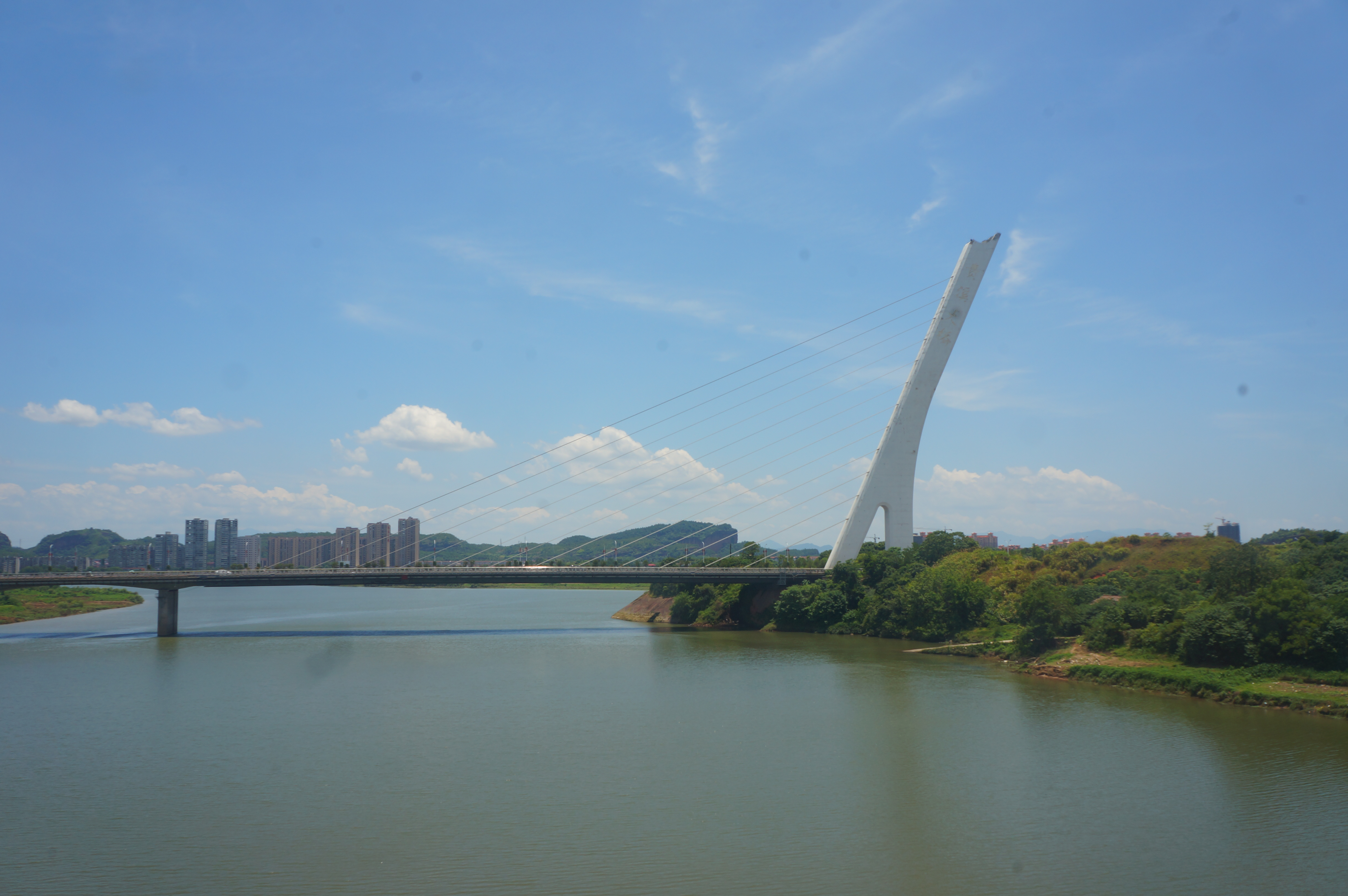 201806 Guixi Bridge